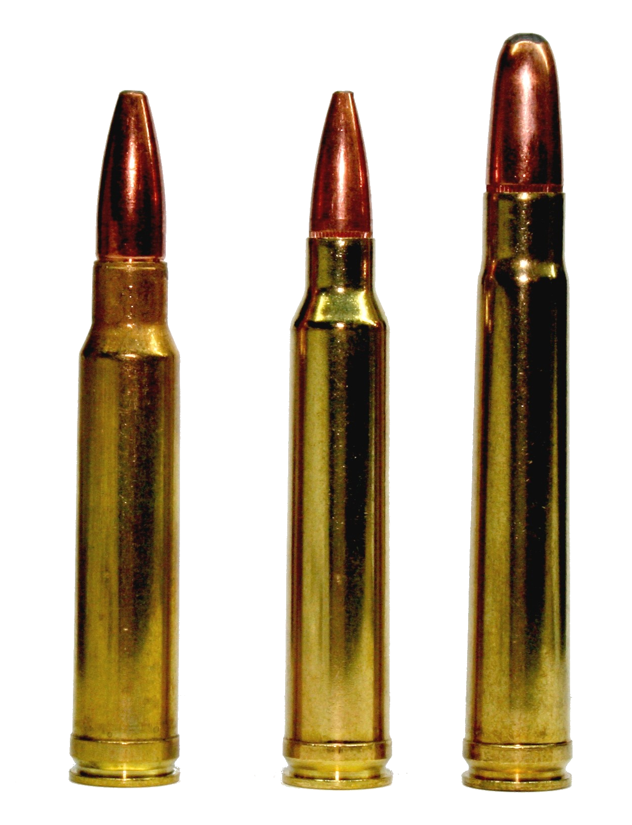 From left .338 Winchester Magnum, .300 Winchester Magnum and the .375 Holland & Holland Magnum